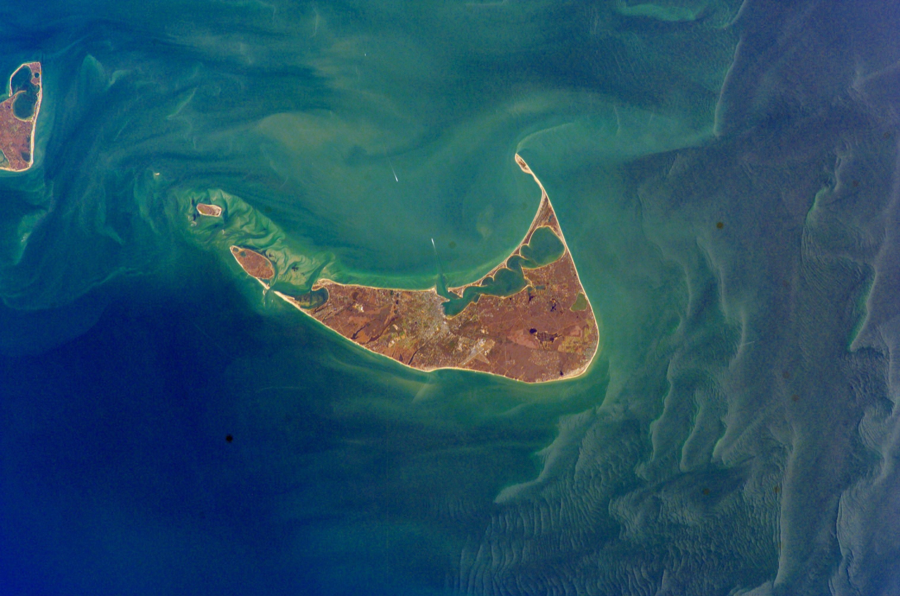 USA-MASSACHUSETTS/NANTUCKET ISLAND ISS004-E-10691 UNITED STATES OF AMERICA, MASSACHUSETTS/NANTUCKET ISLAND ID: ISS004-E-10691